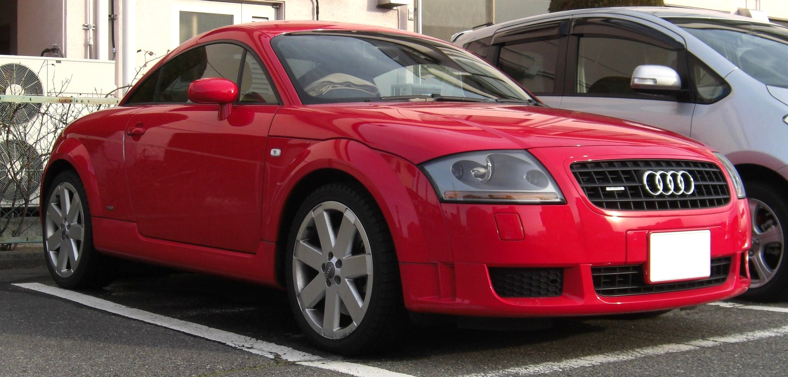 Audi TT in Japan